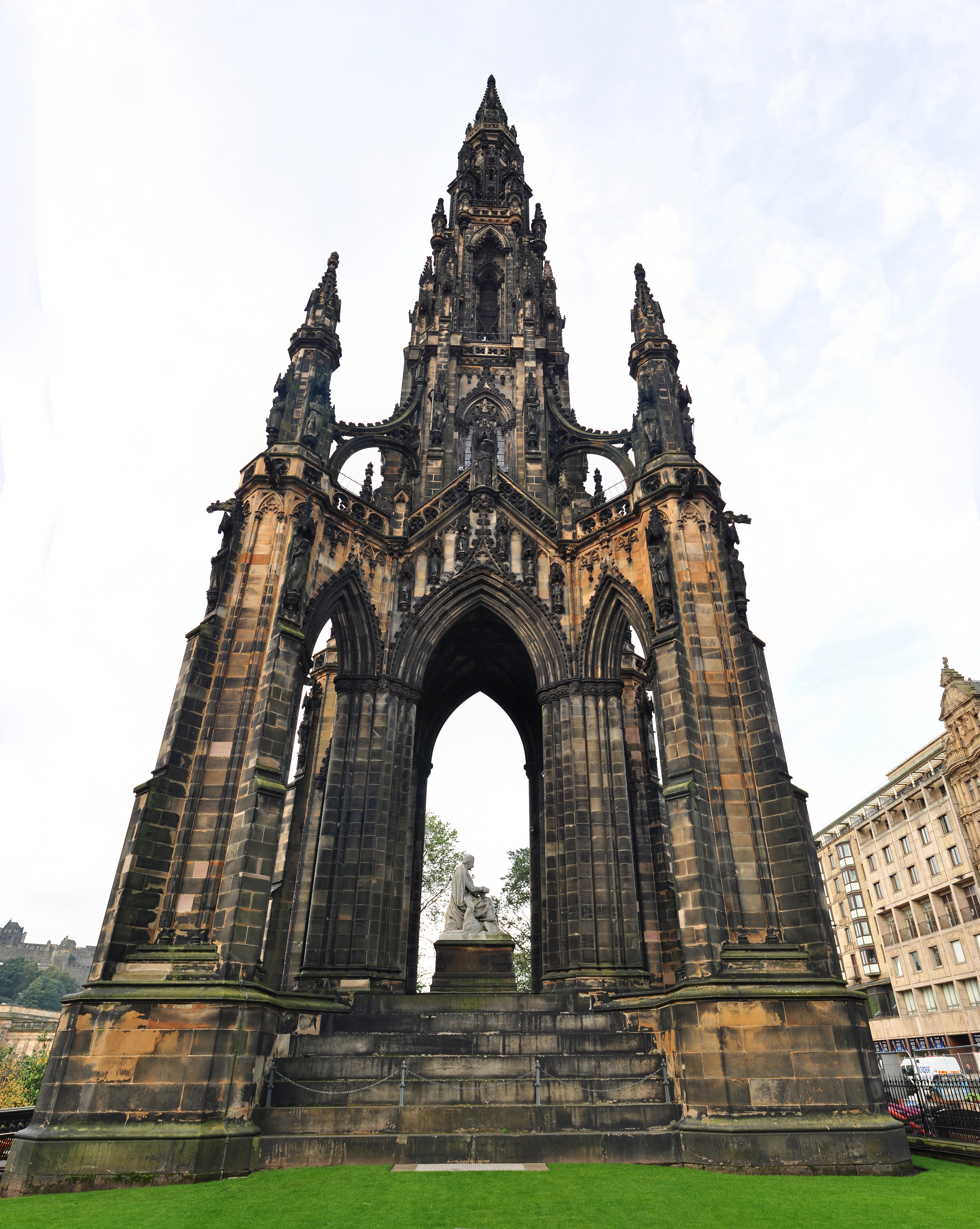 The Scott Monument, Edinburgh, As seen on an overcast October afternoon. Photo by Gregg M. Erickson.